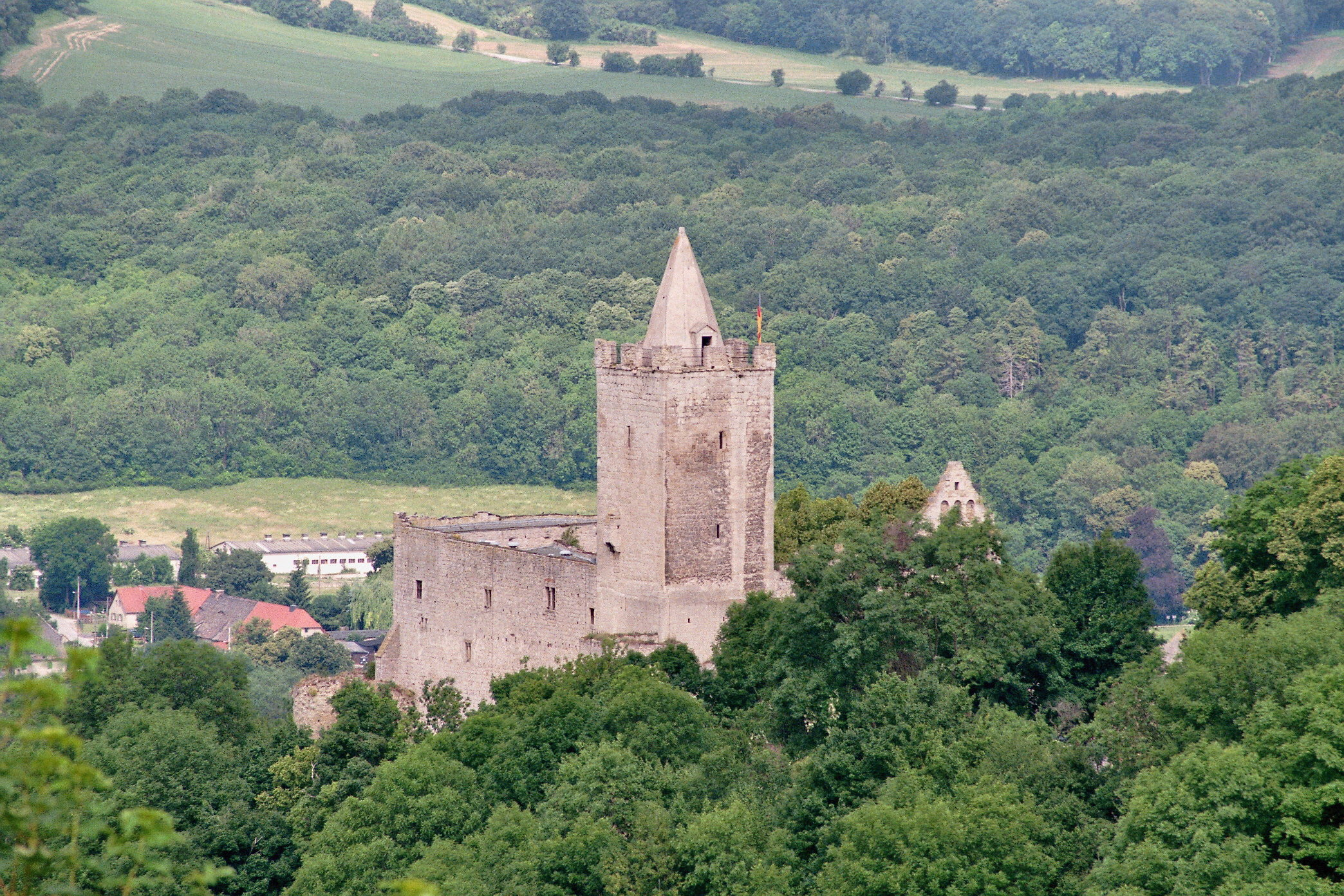 Rudelsburg Castle in Sachsen-Anhalt/Germany, seen from Kreipitzsch Manor